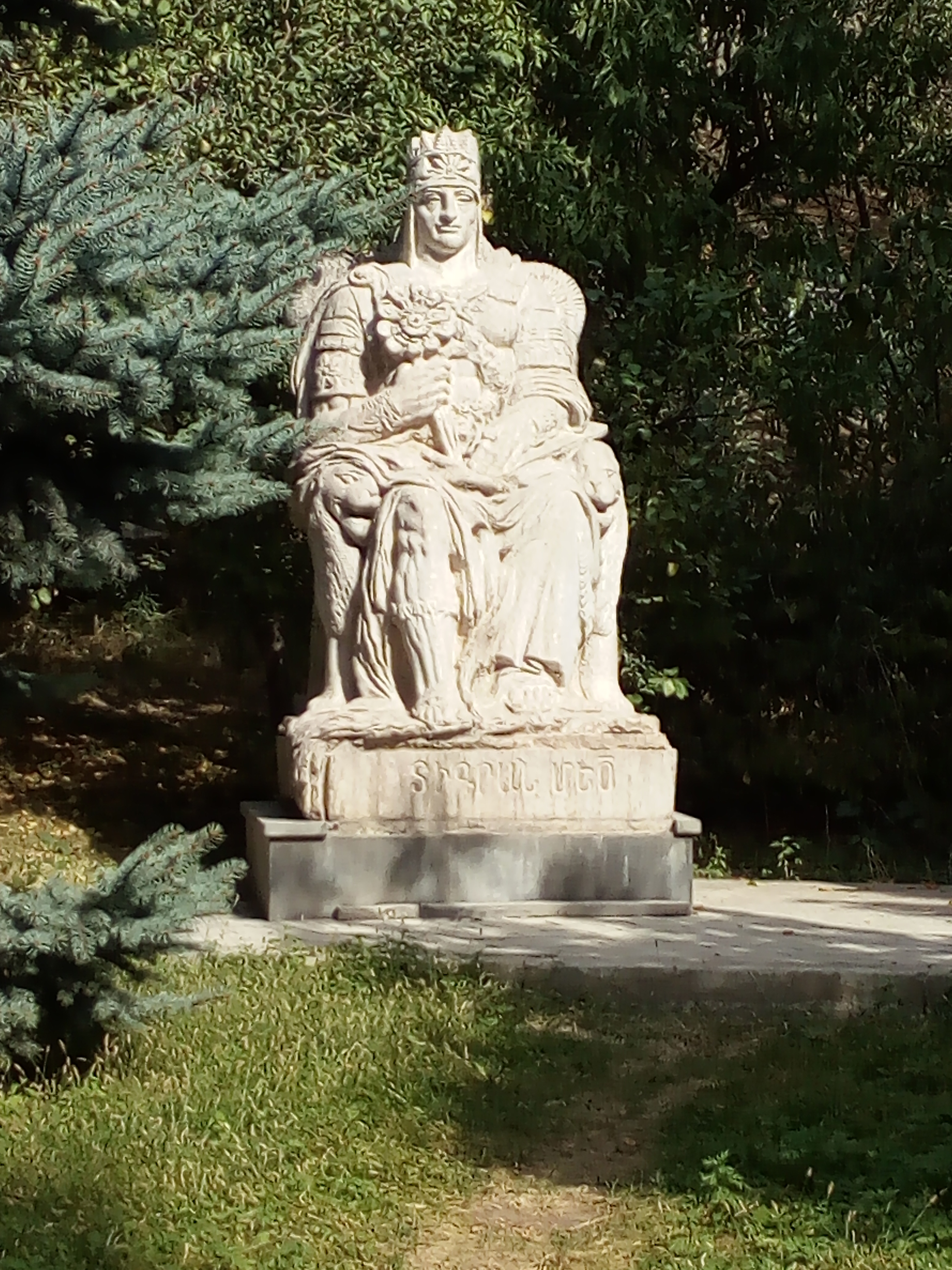 The statue of Tigranes the Great in Presidential Palace, Yerevan, Armenia.